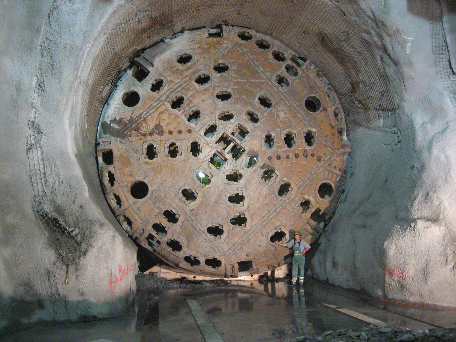 Head of the S-210 Tunnel boring machine used to excavate the eastern tube of the Gotthard Base tunnel between Bodio and Faido, Canton Ticino, Switzerland (all roll chisels have already been removed, picture taken 10 days after breakthrough into multi-function station Faido, 2000 m of rock overhead, diameter is 8.80 m / 29 ft., length of the TBM is 400 m / 1312 ft.)